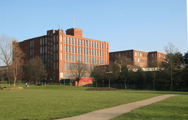 Osborne Mills, Chadderton Pair of mills on Osborne and Waddington Streets. No. 1 (back)was by A H Stott in 1873, extended 1891 and 1900, closed 1968. 66,008 spindles in 1910. No. 2 was by P S Stott in 1912 with 54,720 spindles. Also closed 1968. No. 1 had Petrie engines and then from 1920 a C A Parsons turbine. No. 2 had a 1200 hp Hick, Hargreaves. Now in multiple occupation.